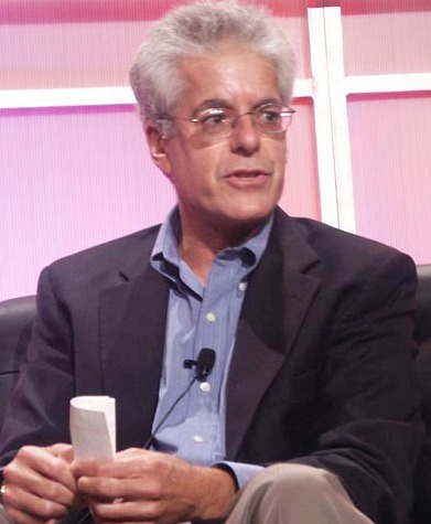 Martin Nisenholtz, CEO of New York Times Digital.